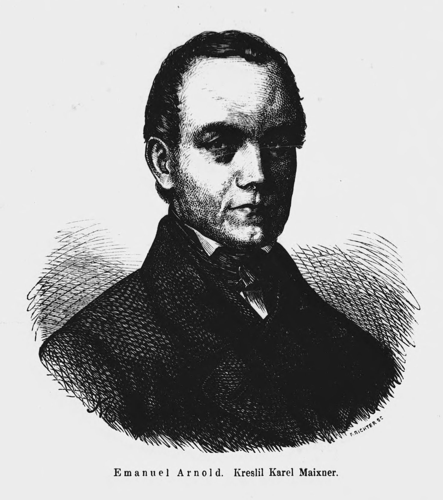 Portrait of Emanuel Arnold (1800-1869), Czech journalist and participant in an attempted coup in 1849.